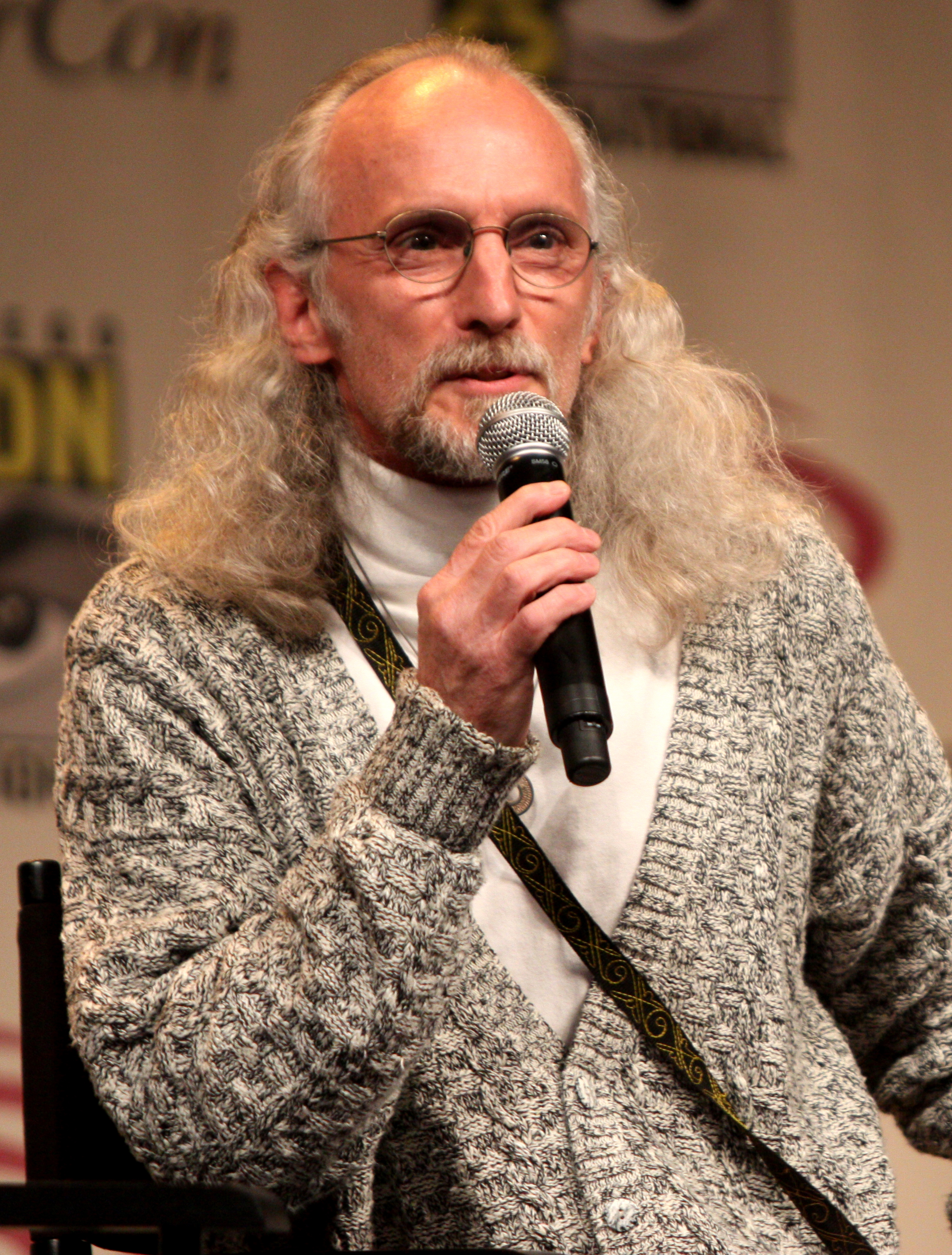 Richard Wharton speaking at Wondercon 2012 in Anaheim, California on March 16, 2012.